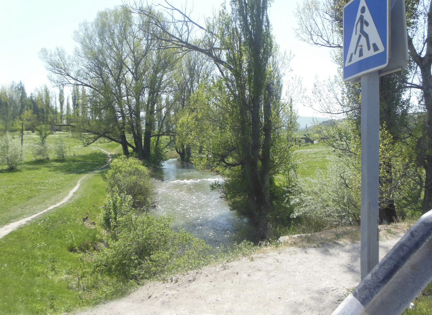 Burulcha River (a tributary of Salgir) near the village of Aromatnoe, Belogosky region, Crimea.